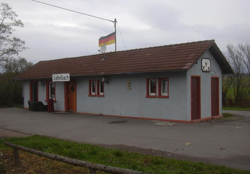 The former station of Sattelbach on the "Odenwaldexpress" Mosbach–Mudau (narrow-gauge railway track)